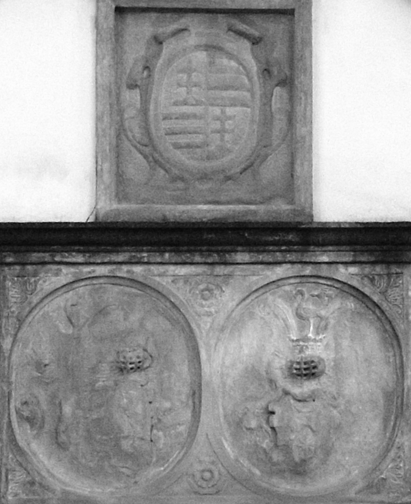 Coats of arms of György Thurzó and Erzsébet Czobor and of Kingdom of Hungary. Fortification entrance of manor house / castle in Bytča.